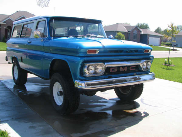 A 1966 GMC Suburban K1000 (i.e. with 4x4).